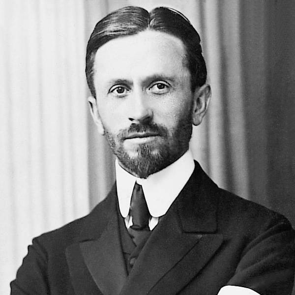 Ernst Christoffel was a German pastor, engaged for the blind. He condemned the Armenian Genocide.